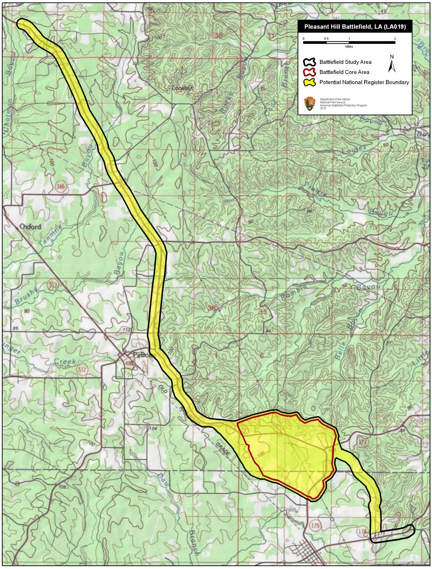 Map of battlefield core and study areas. The revised Study Area includes the Confederate route of advance from the Mansfield battlefield, where the two armies had fought the previous day, to the vicinity of the Federal position at Pleasant Hill. The Study Area also includes the route of the Federal retreat towards Grand Ecore as the battle ended. The Core Area was widened to the north and south to include land over which the Confederates attempted flanking manouevres against the Federal left.